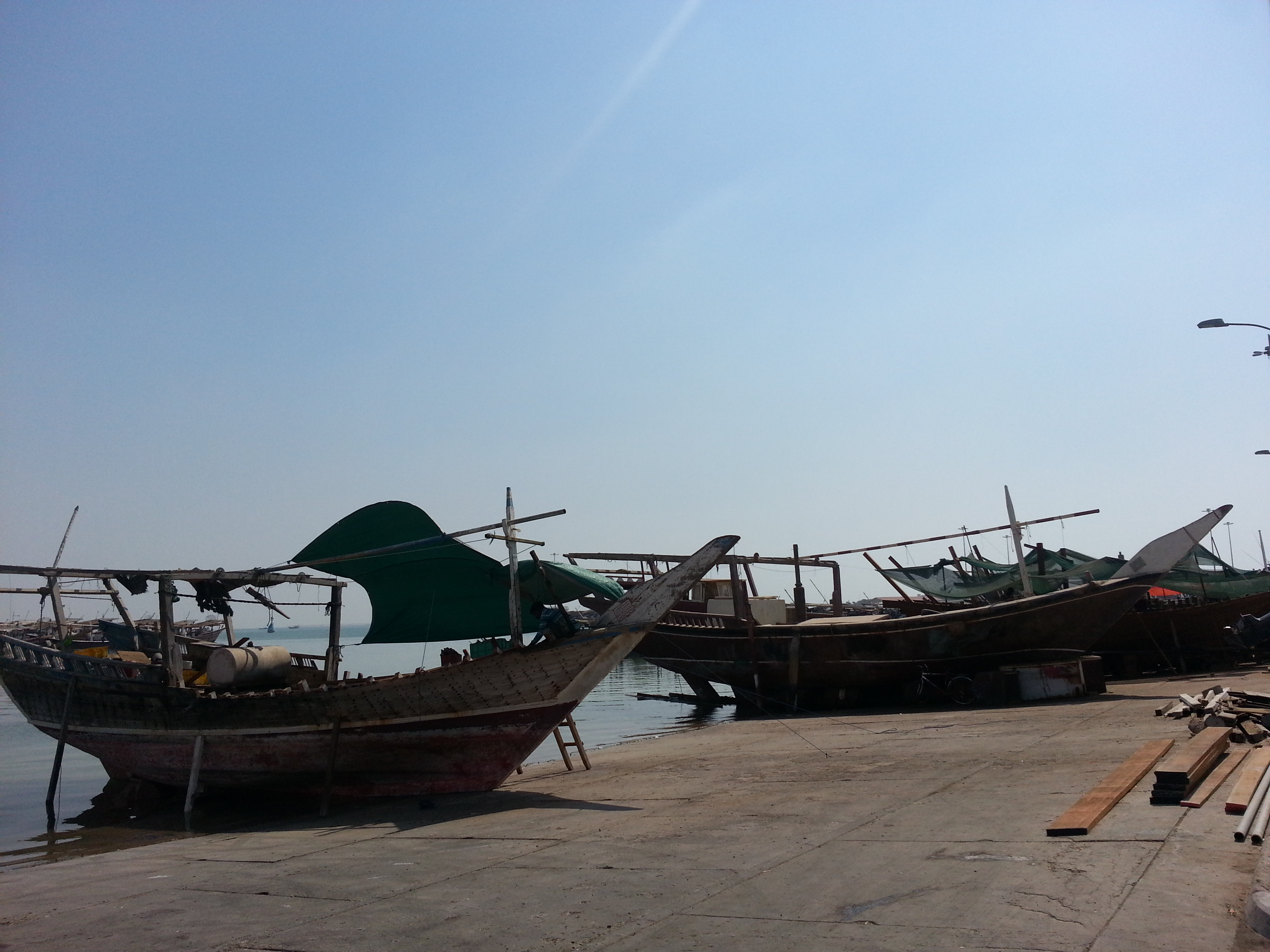 country fishing vessels at the persian gulf.al khor .qatar